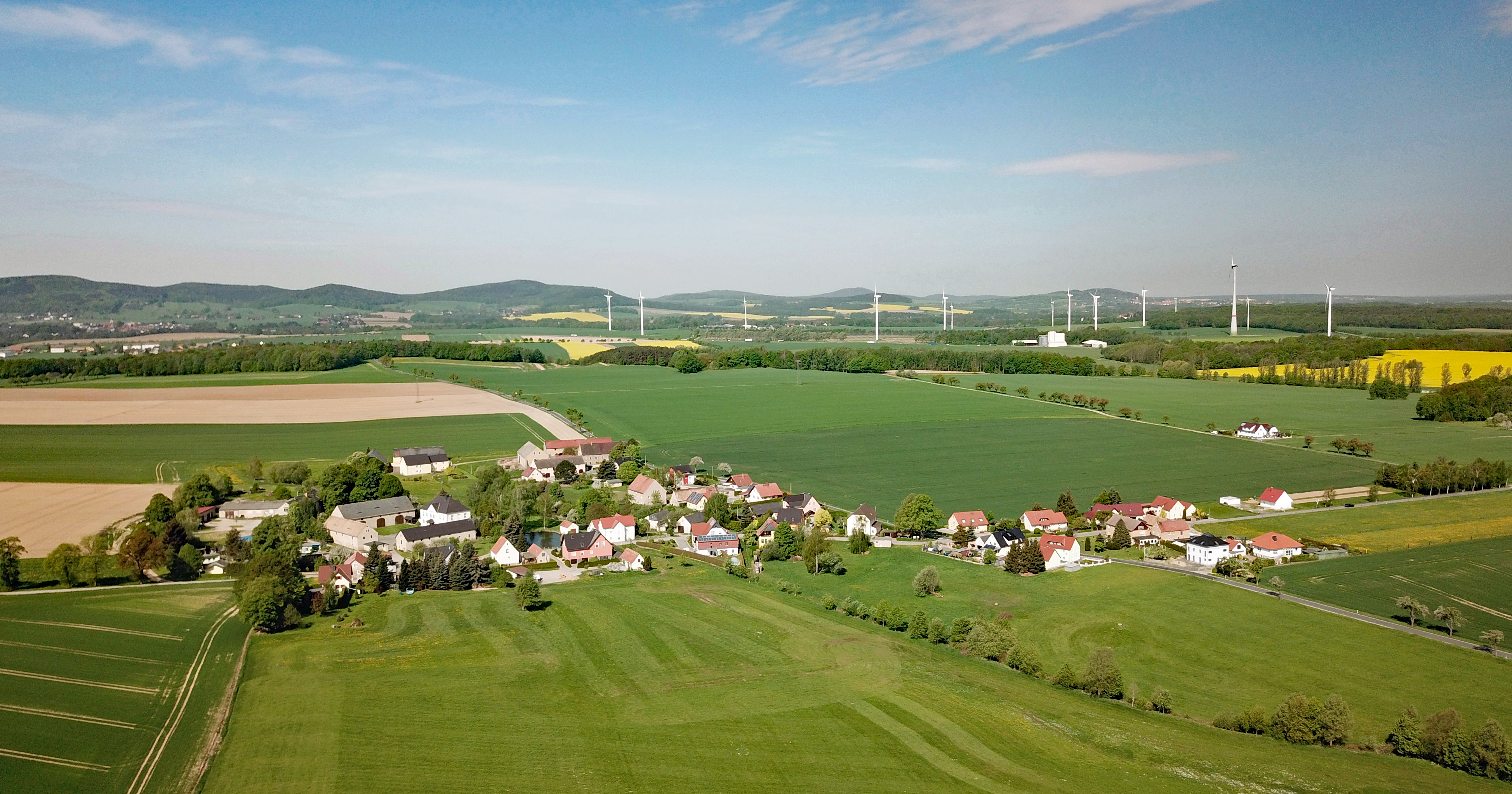 Jauer (Panschwitz-Kuckau, Saxony, Germany) Hornjoserbsce: Powětrowy wobraz Jawory